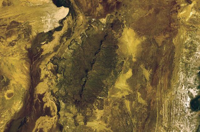 The fissure-controlled Korath Range is an isolated group of tuff cones and lava flows in southern Ethiopia that were erupted along the Turkana Rift. The Korath Range tuff cones issued many lava flows that traveled up to about 5 km, forming lobate margins, most prominently on the western flanks of the massif. The apparent youngest flow issued from the central crater and flowed through a breach in its rim.